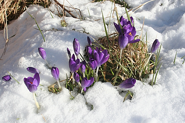 Harbingers of Spring A clump of early crocuses blooming in the snow at Covesea.